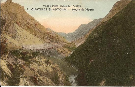 La route de Maurin